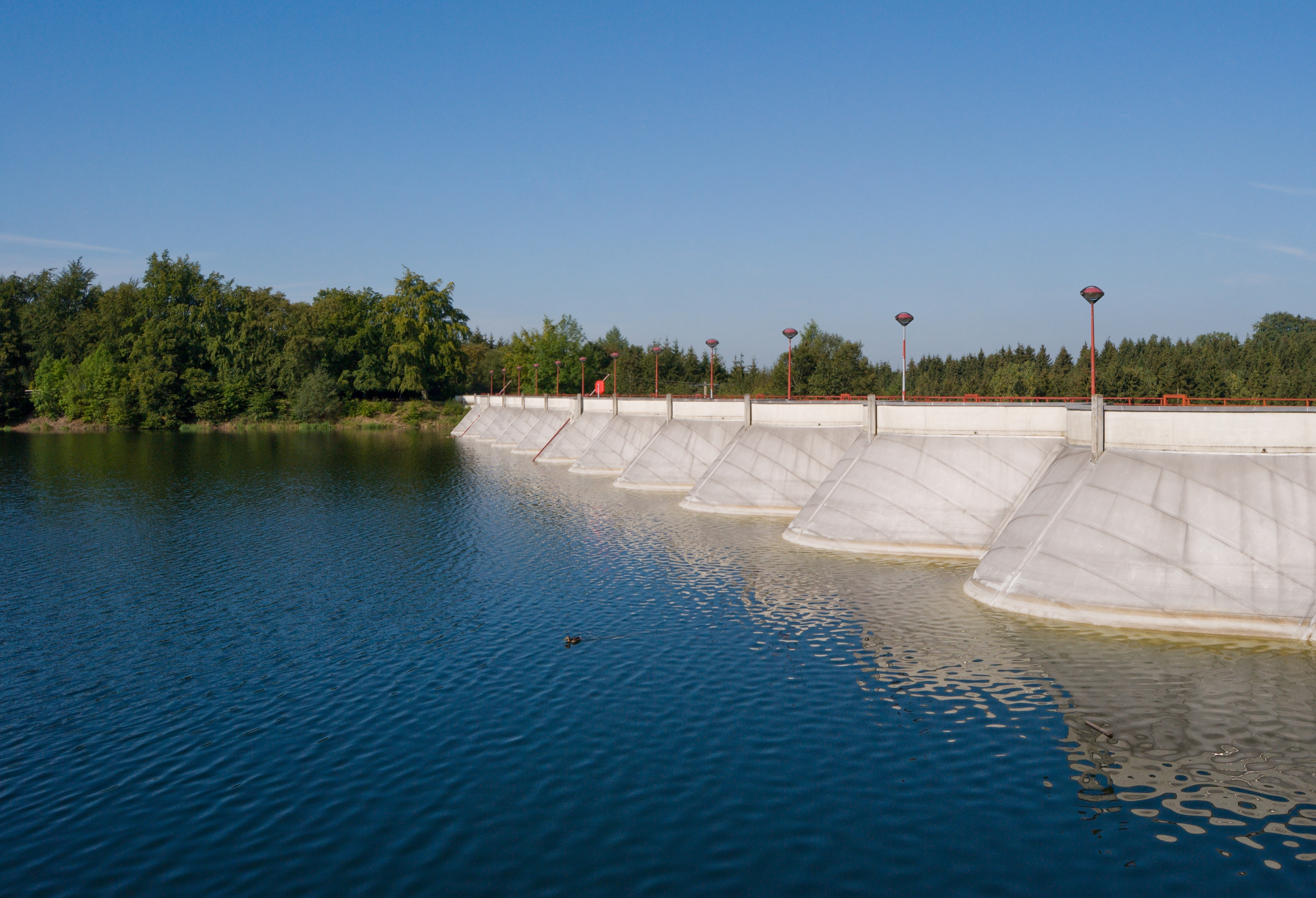 Bütgenbach (province Liège, Belgium) – dam wall